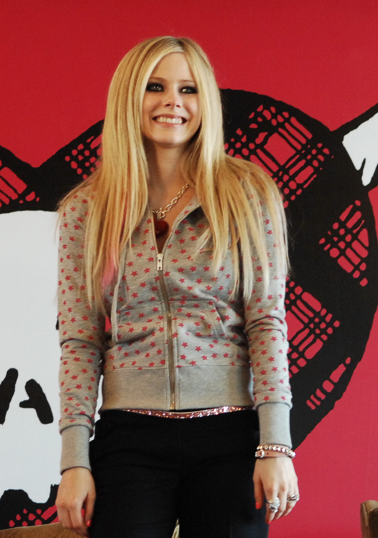 Avril Lavigne In Hong Kong 2007 Press Conf.